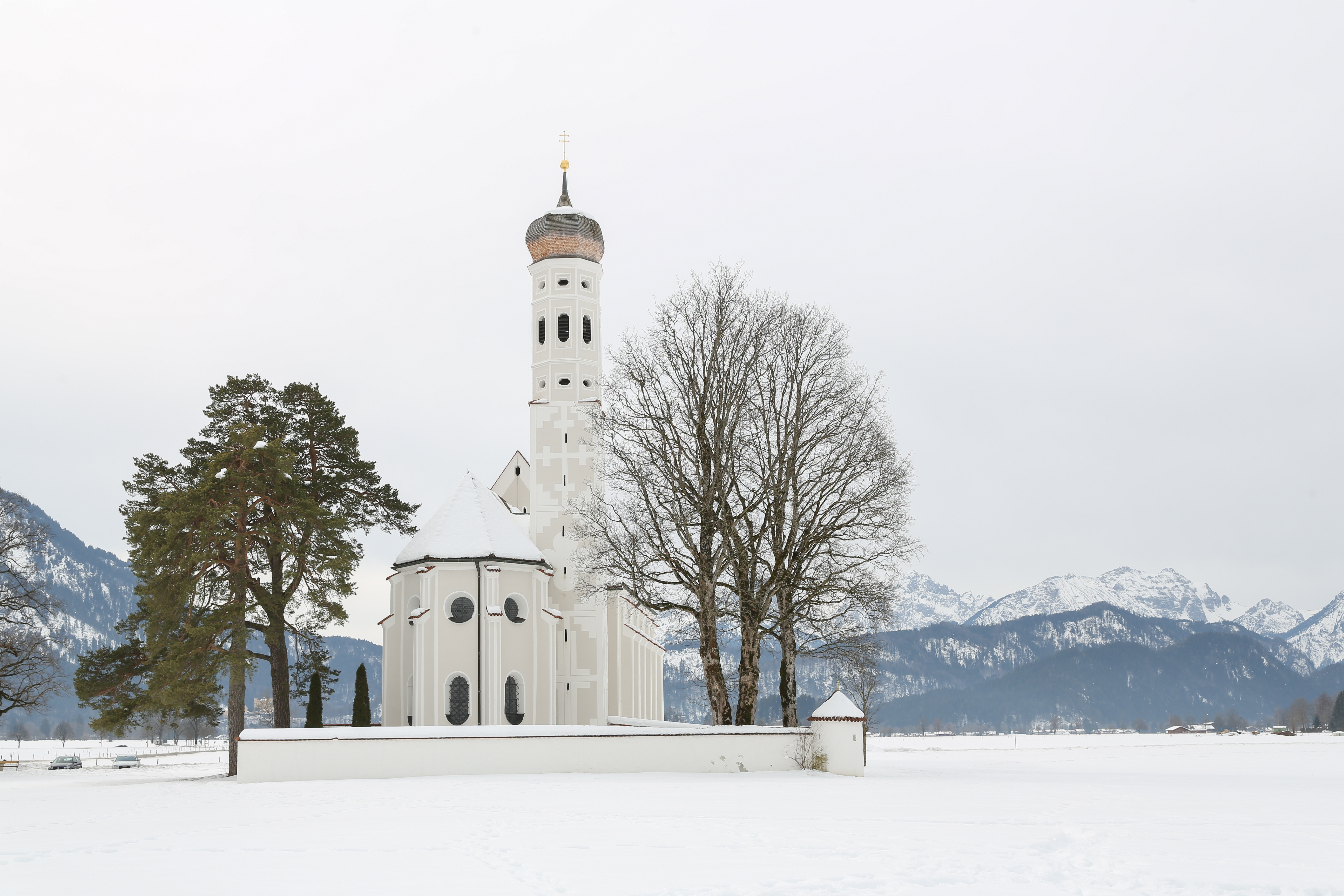 Winter landscape of St Coloman church (de), located in Schwangau, Bavaria, southern Germany. St Coloman church is of baroque style and was constructed, the way it is today, in the 17th century in honor to Saint Coloman, replacing a chapel of the 15th century. The irish pilgrim is said to have taken a break at this spot in his pilgrimage to the Holy Land in 1012.